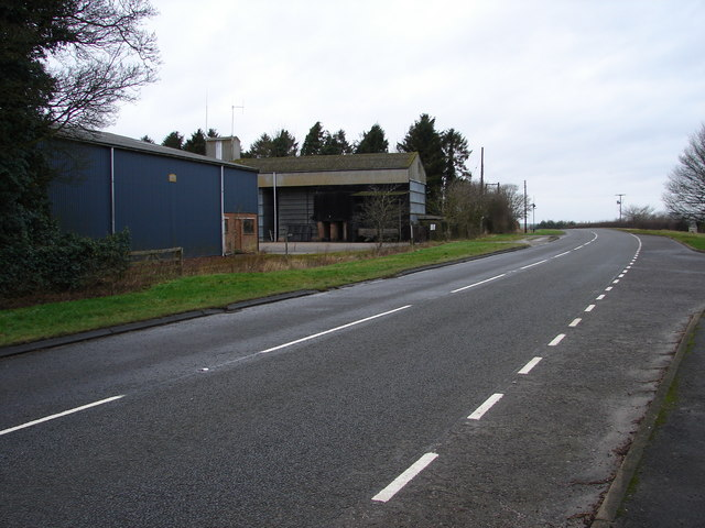 A16 at Walmsgate Taken from the point where Cowdyke Lane joins the main road.